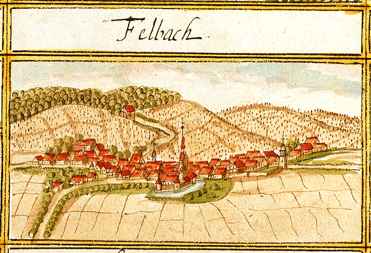 View of Fellbach from the forest register books created by Andreas Kieser